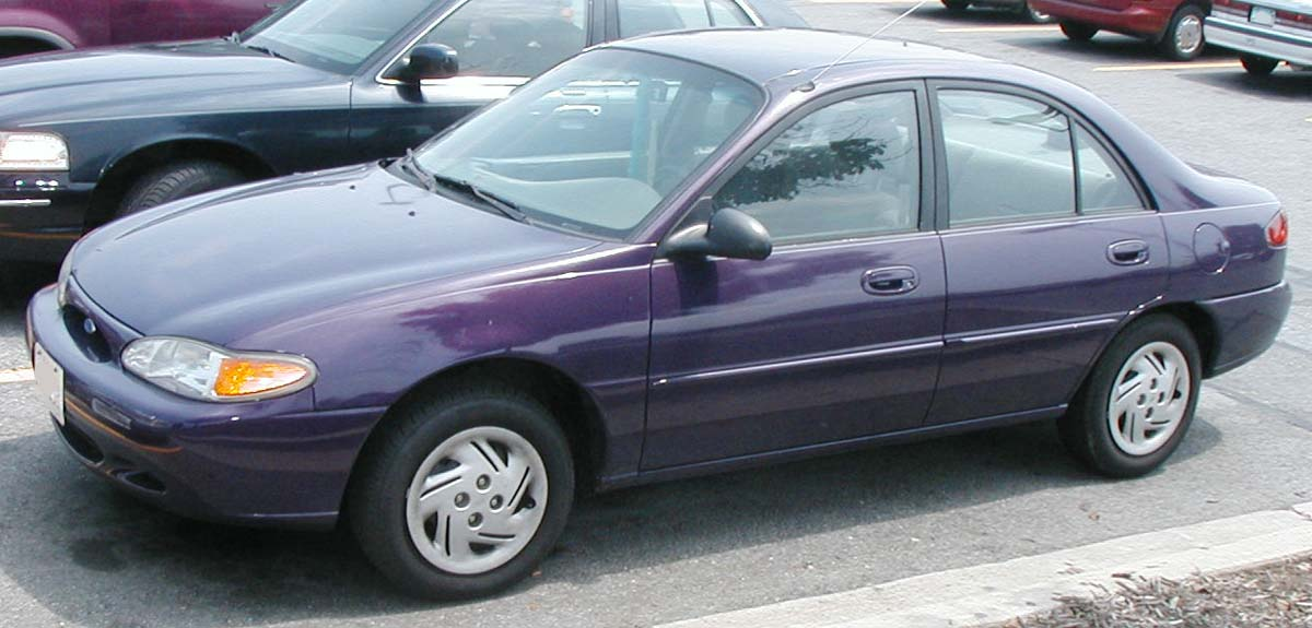 1997-2001 Ford Escort sedan photographed in USA.